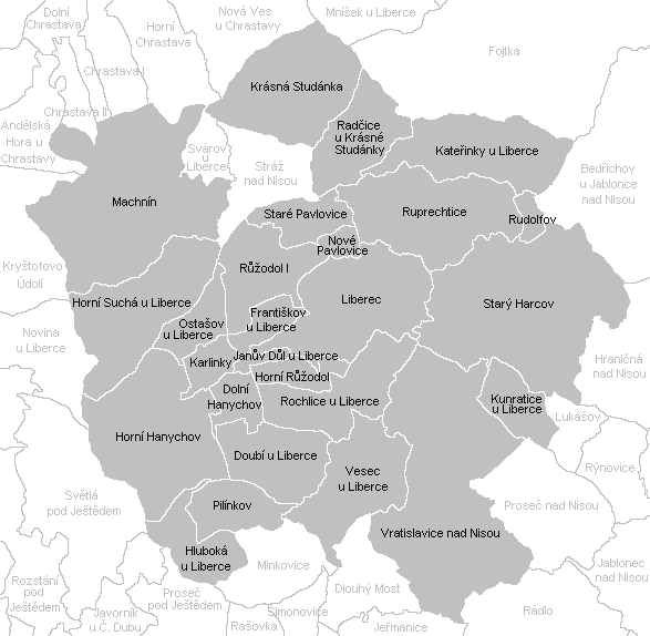 Cadastral map of Liberec